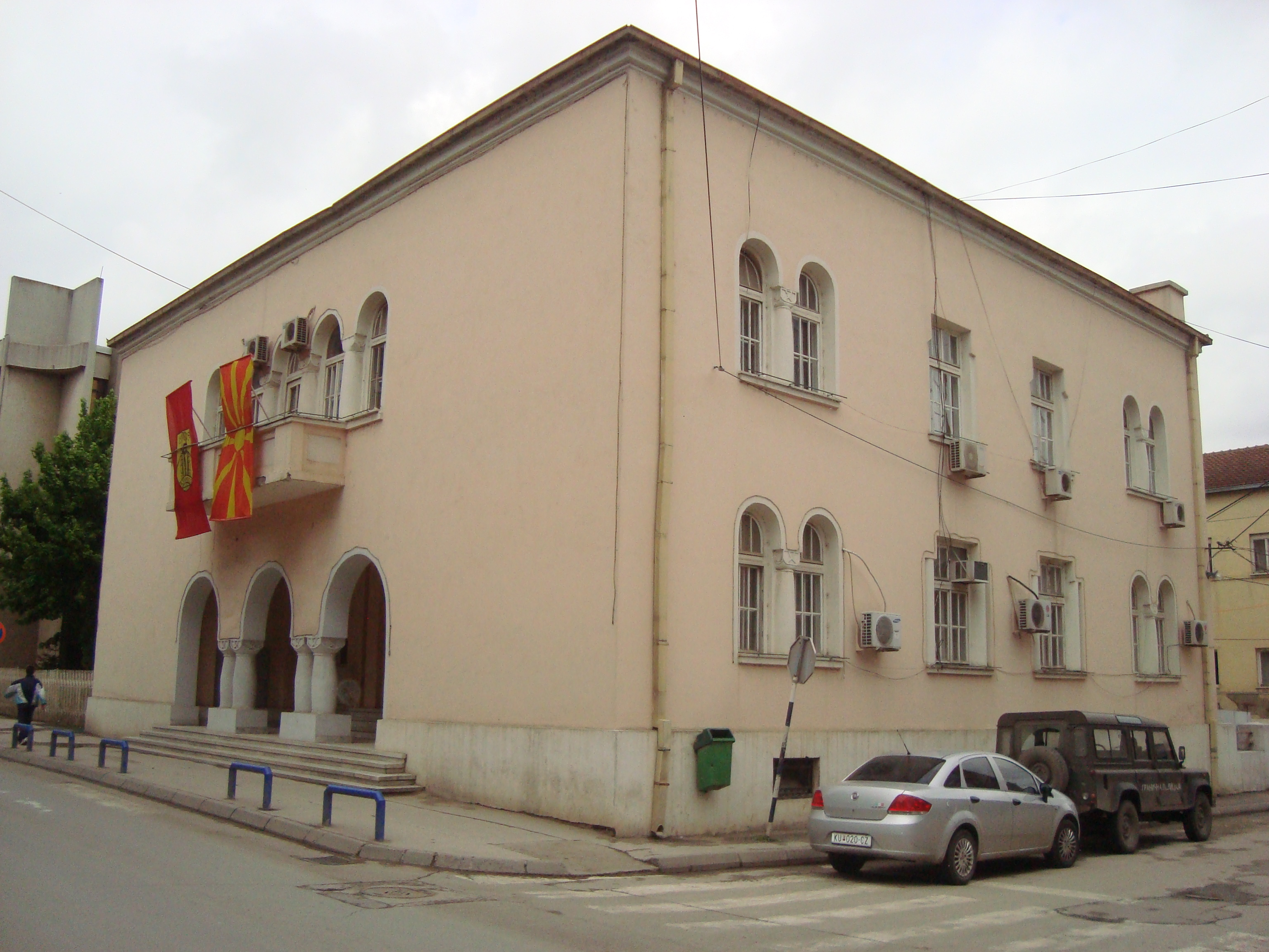 Kumanovo City Hall, Kumanovo, Macedonia.